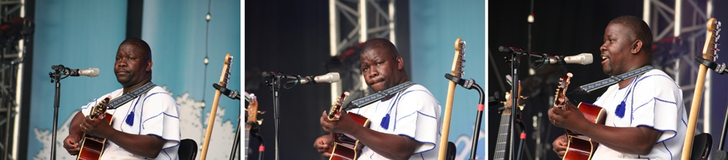 Manecas Costaa at FMM Festival in Sines 2009